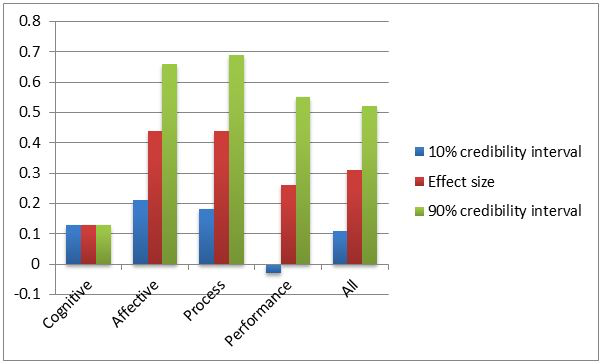 Klein's metaanalysis